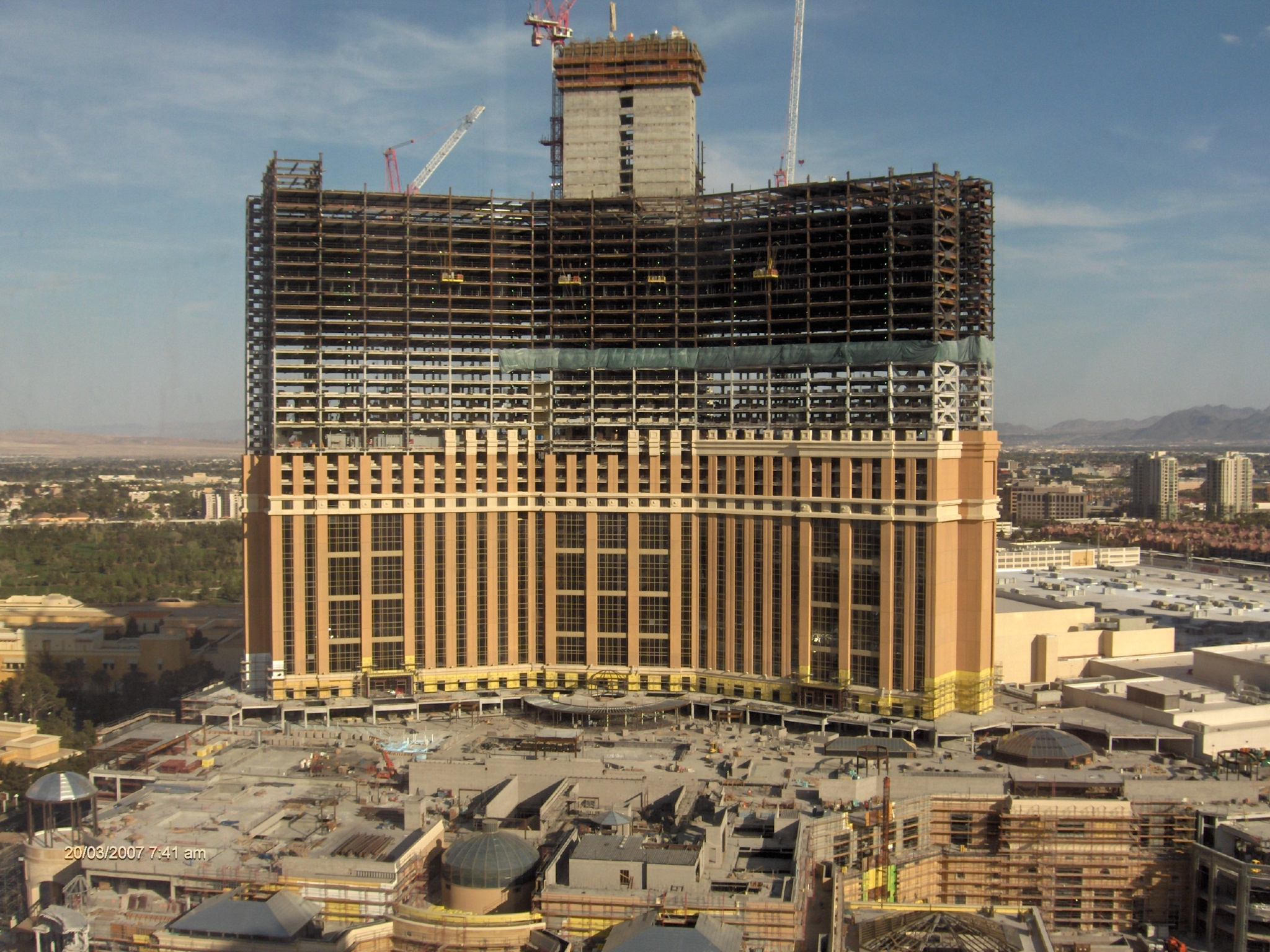 Picture of the Palazzo Hotel, Resort, Casino taken from Treasue Island. The Palazzo hotel opened on January 17, 2008, the casino already some days earlier.